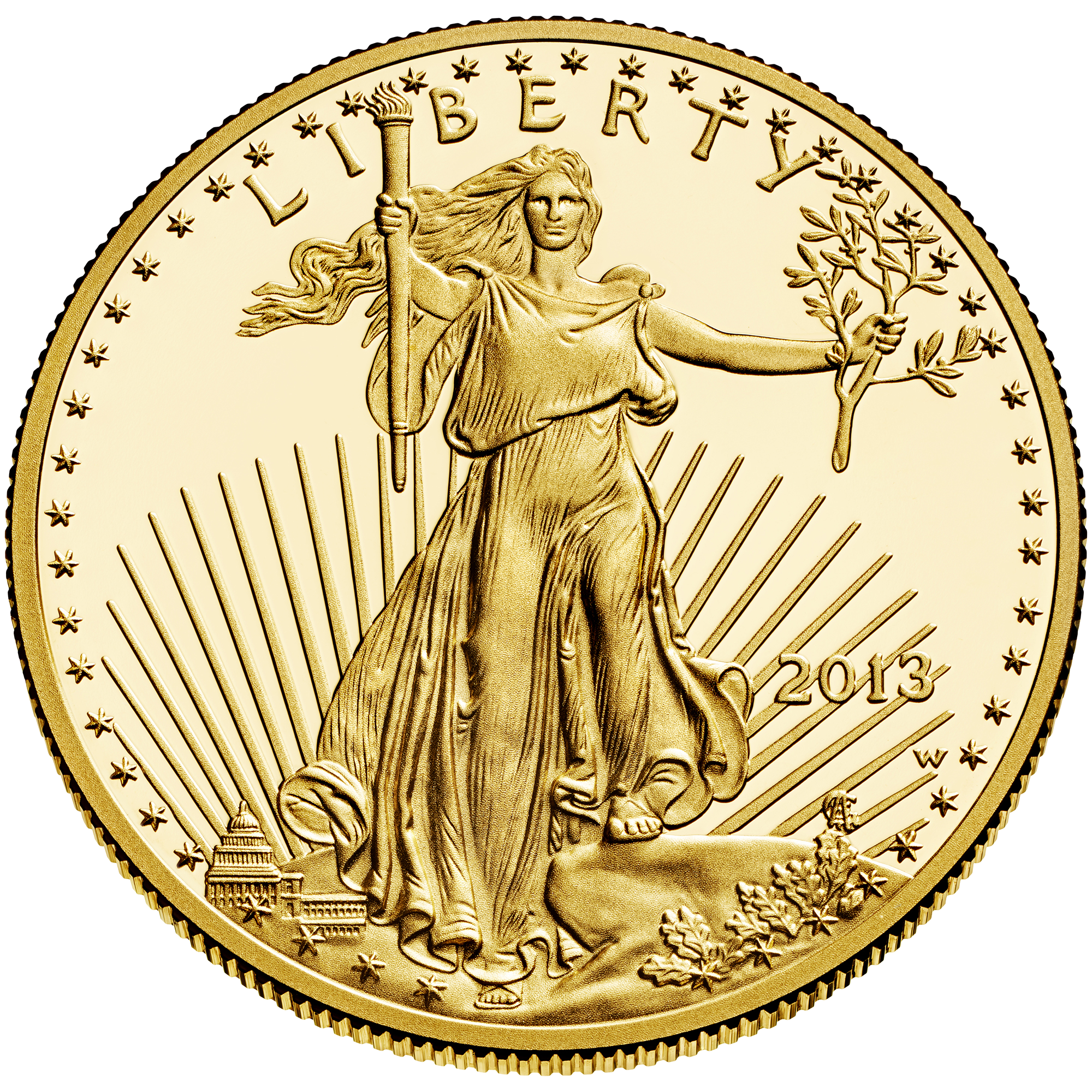 United States Liberty $50